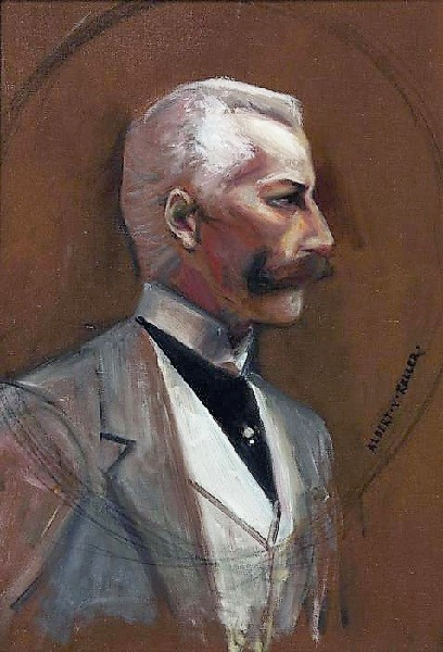 Portrait of a Gentleman (self-portrait?)